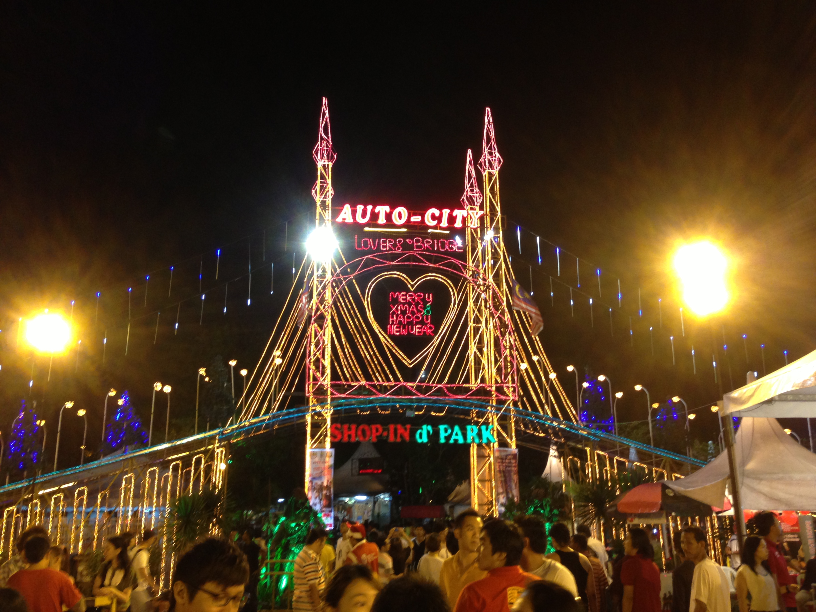 Crowded with revellers in Auto City Juru, Penang, Malaysia on New Year's Eve 2013.